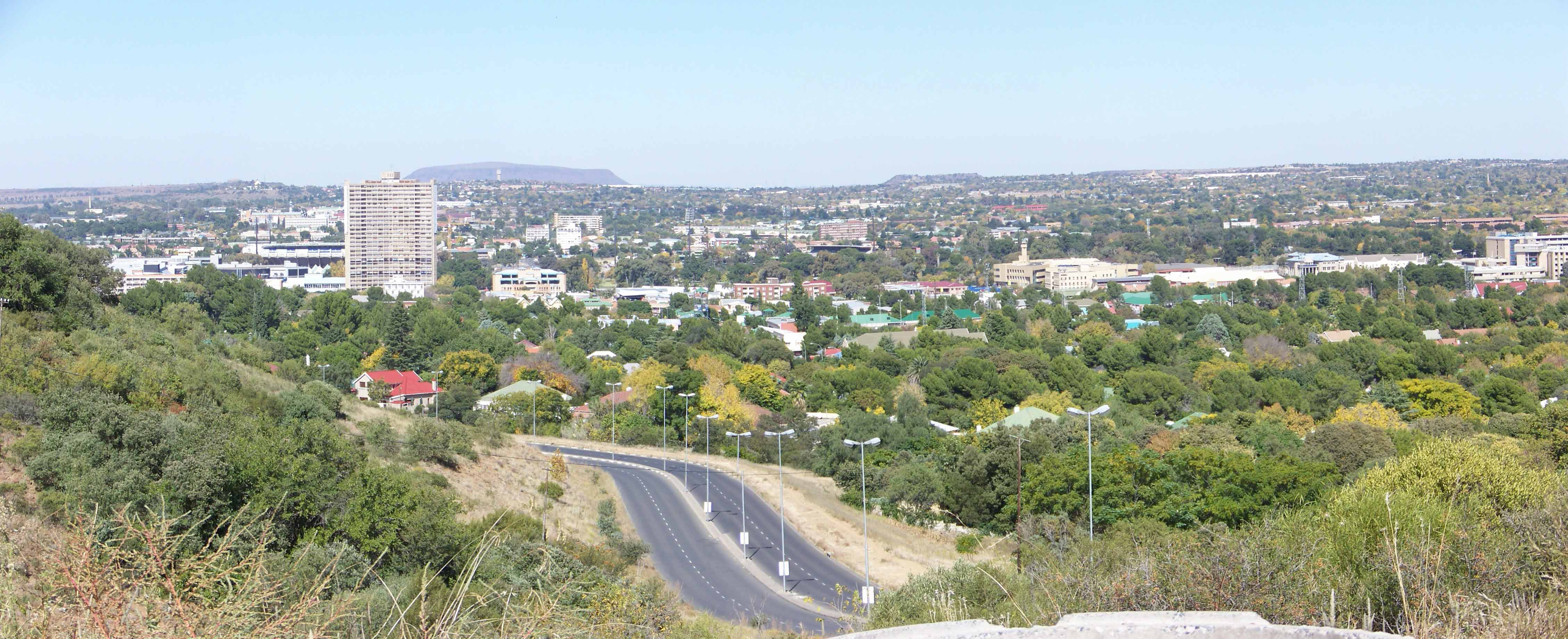 Bloemfontein as viewed from Signal Hill